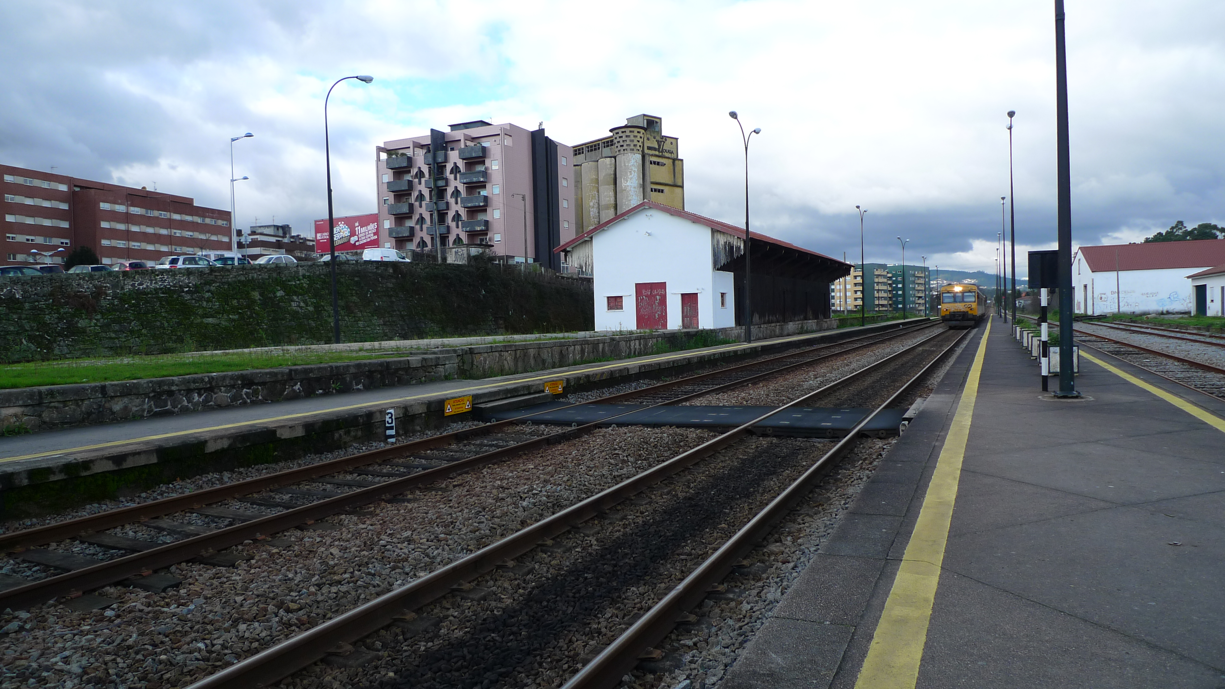 Barcelos train station, Barcelos, Portugal